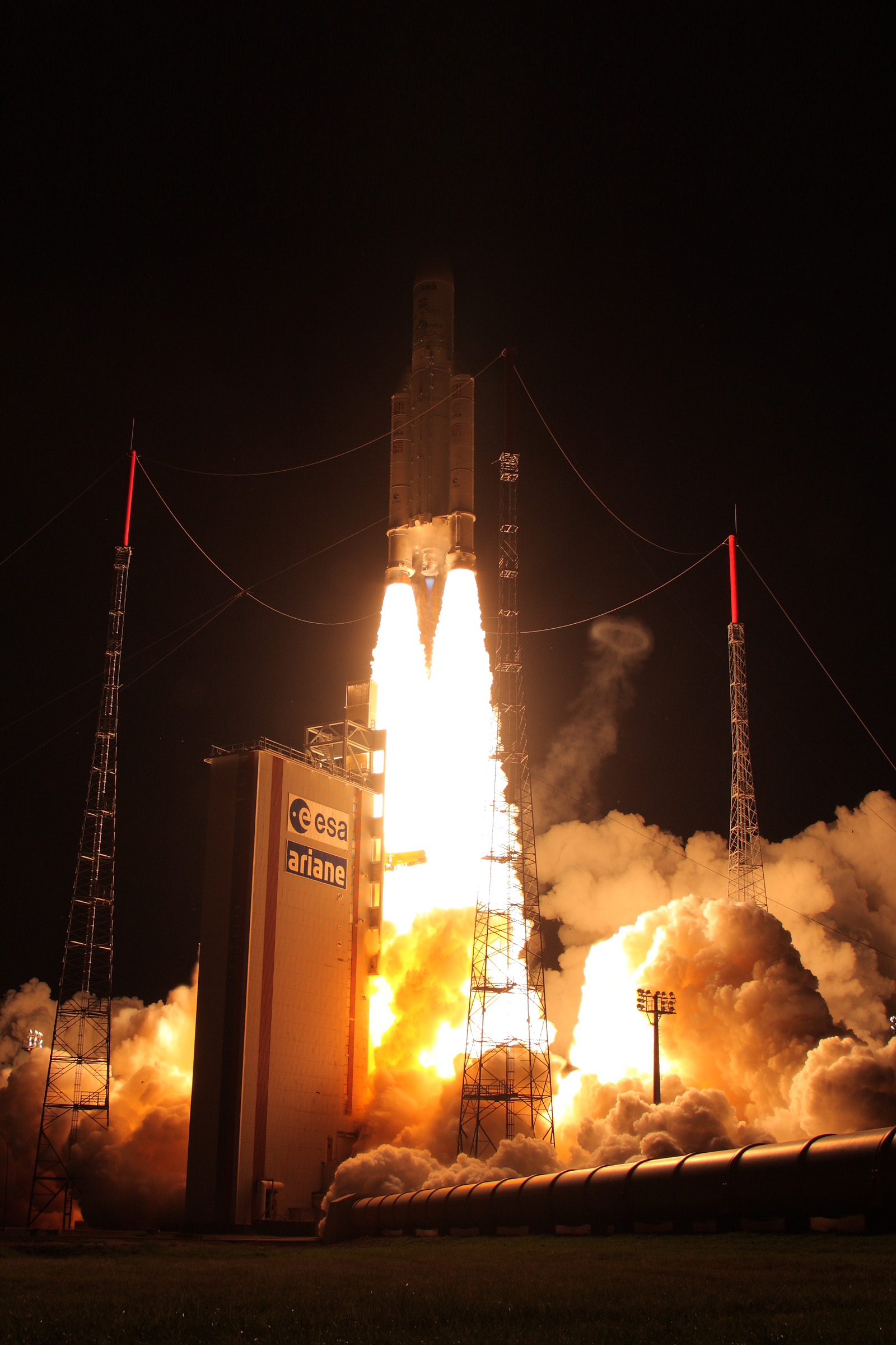 Credit: DLR/Thilo Kranz (CC-BY 3.0) 2013